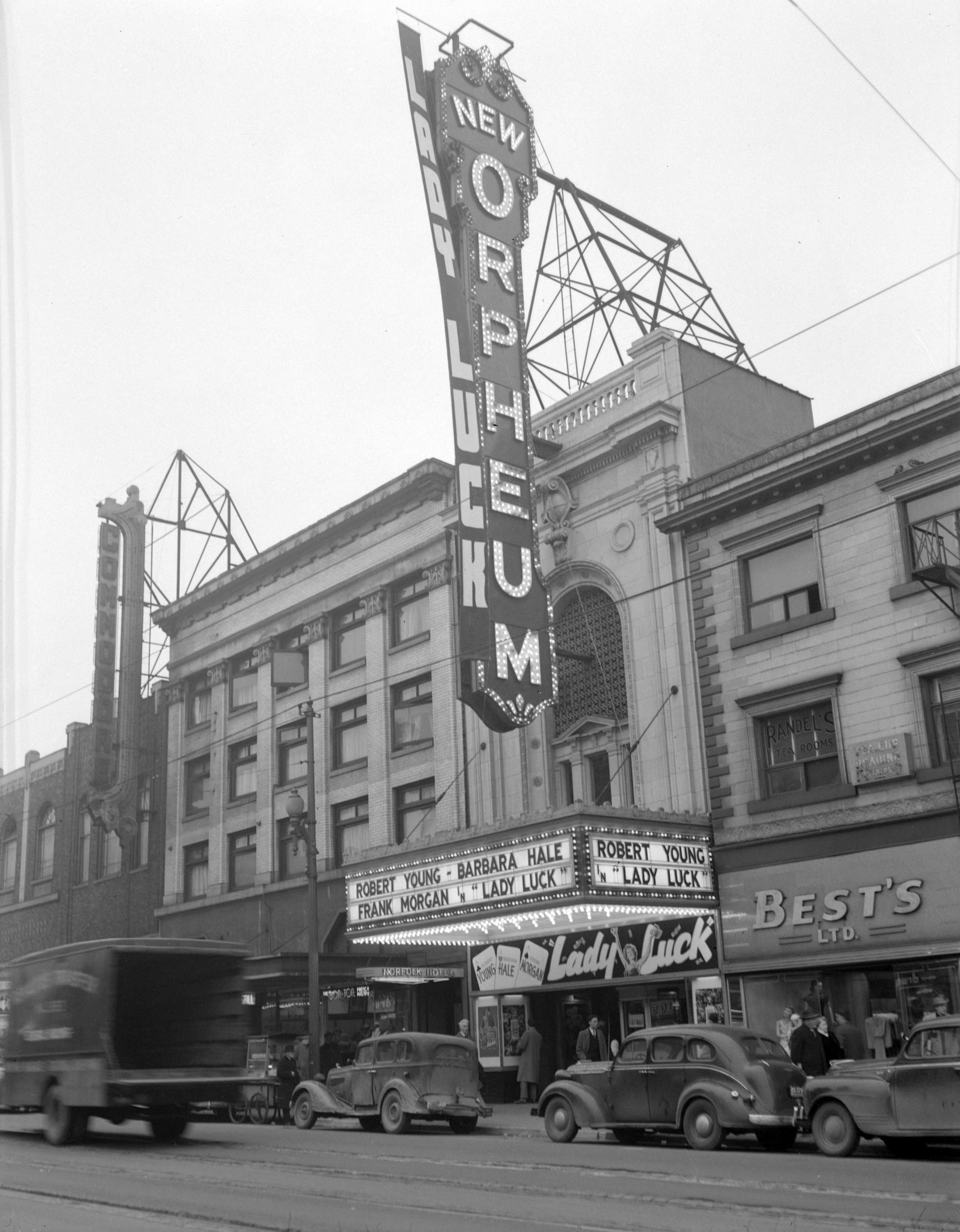 Exterior view of the Orpheum Theatre with advertising for the movie "Lady Luck".